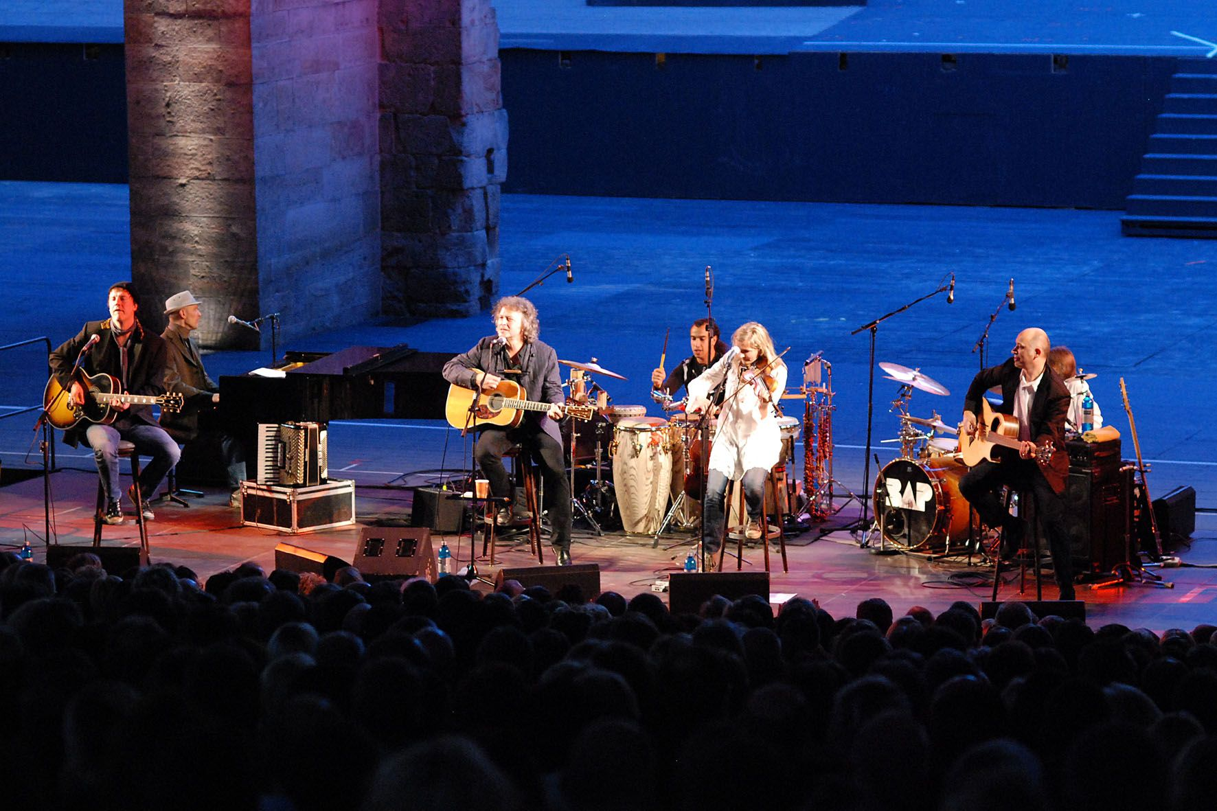 BAP-Unplugged-Konzert in Bad Hersfeld (2009); from left: Helmut Krumminga, Michael Nass, Wolfgang Niedecken, Rhani Krija, Anne de Wolff, Werner Kopal, Jürgen Zöller (covered)